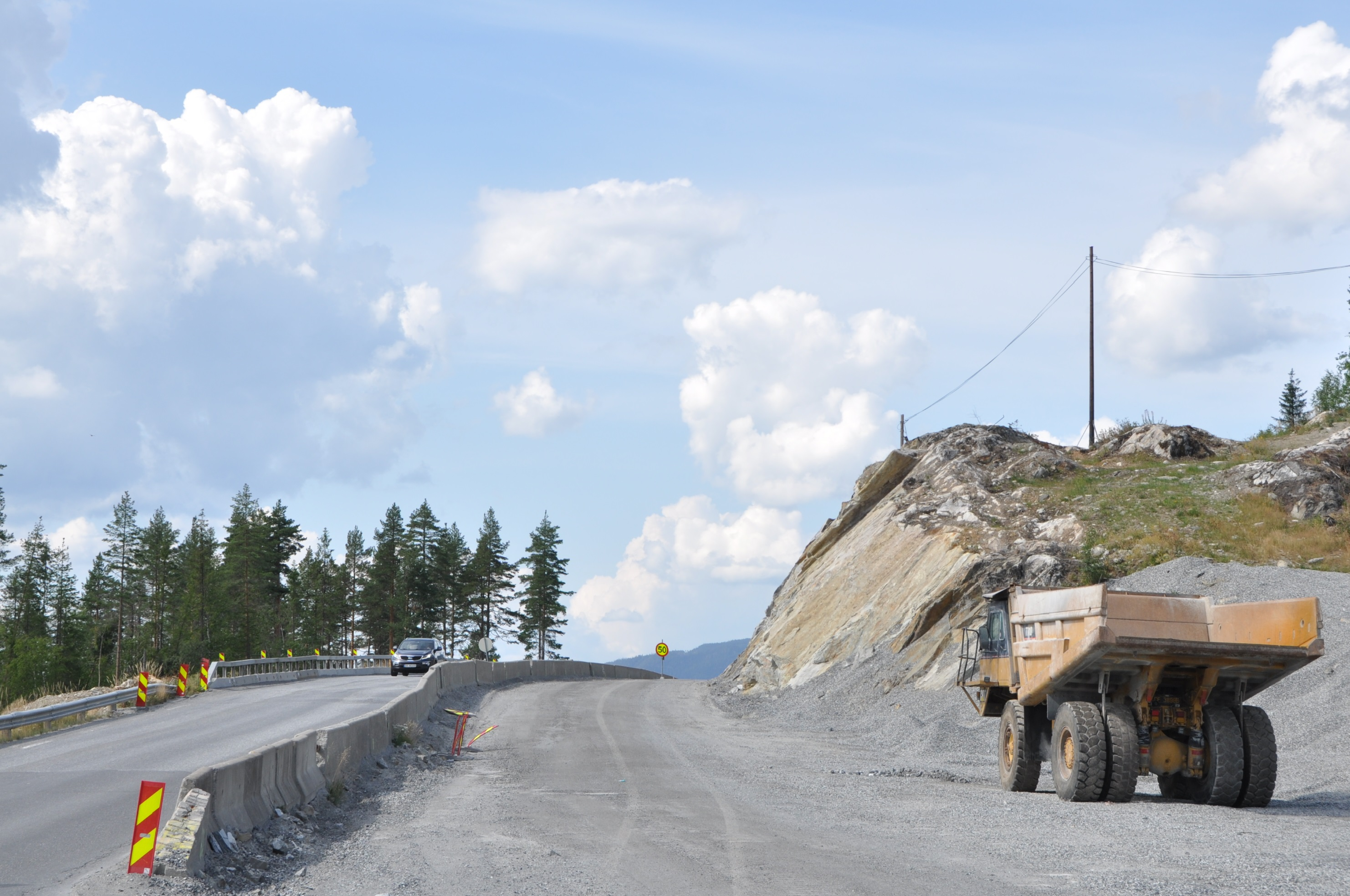 Roadworks on E16 between Bagn and Bjørgo, Valdres